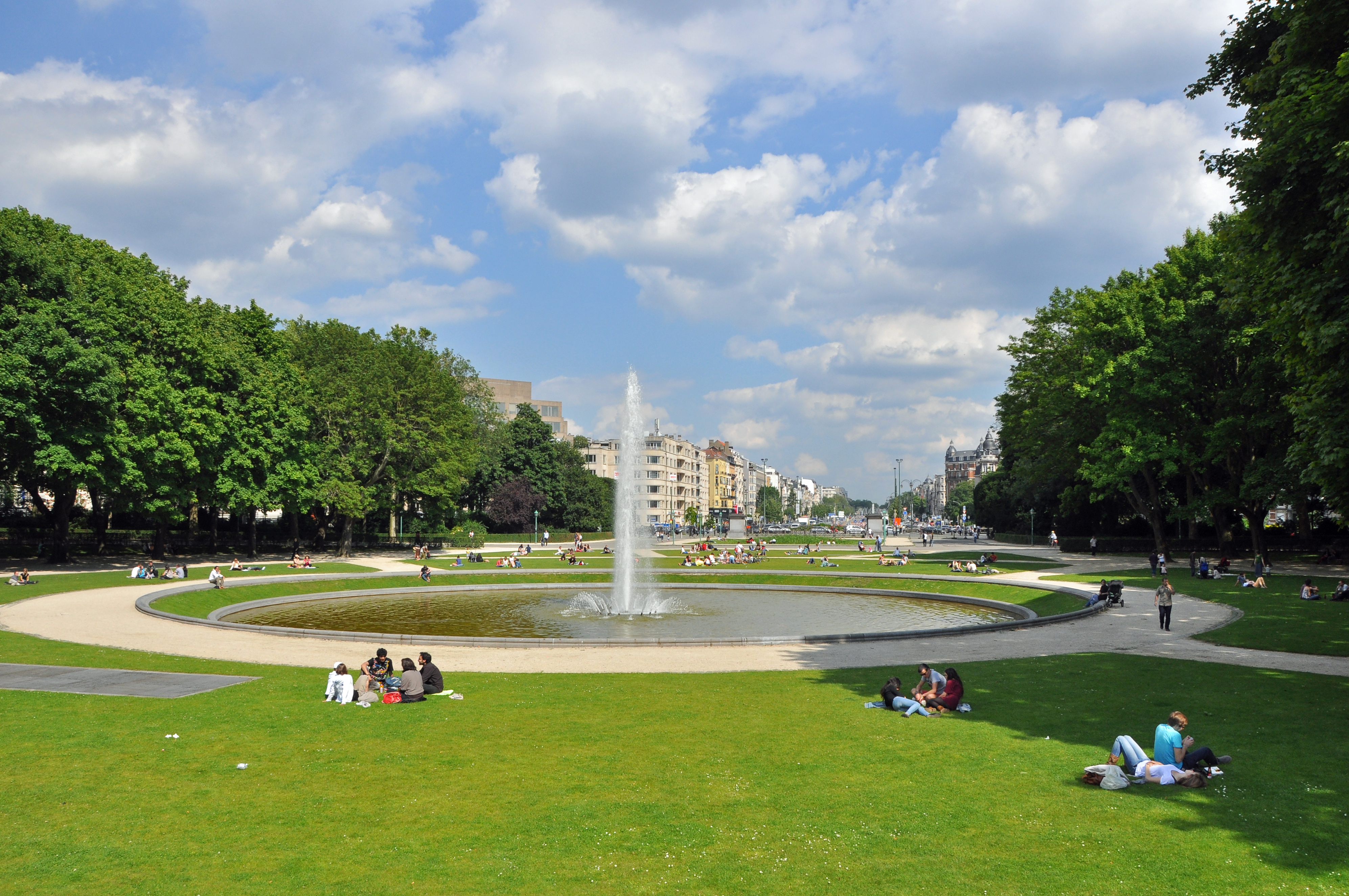 Brussels (Belgium): the Cinquantenaire Park